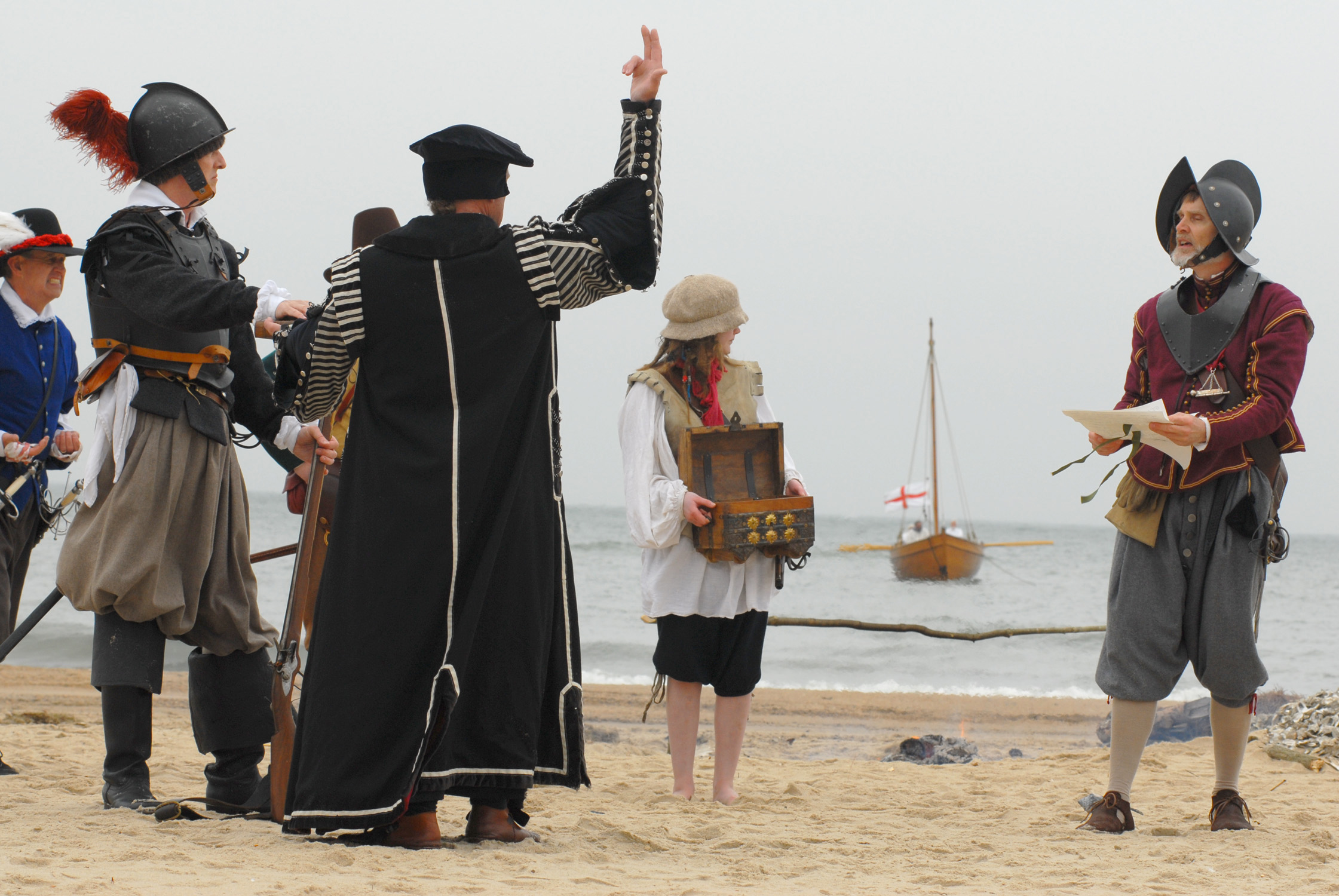 VIRGINIA BEACH, Va. (April 26, 2007) - Robert Hicks as Capt. John Radcliff reads the ordination orders and instructions during a re-enactment ceremony on the 400th anniversary of the First Landing in the, "New World." Settlers from the ships the Godspeed, Discovery and the Susan Constant landed in Virginia Beach and stayed four days before transiting to Jamestown. U.S. Navy photo by Mass Communication Specialist Seaman Matthew Bookwalter (RELEASED)